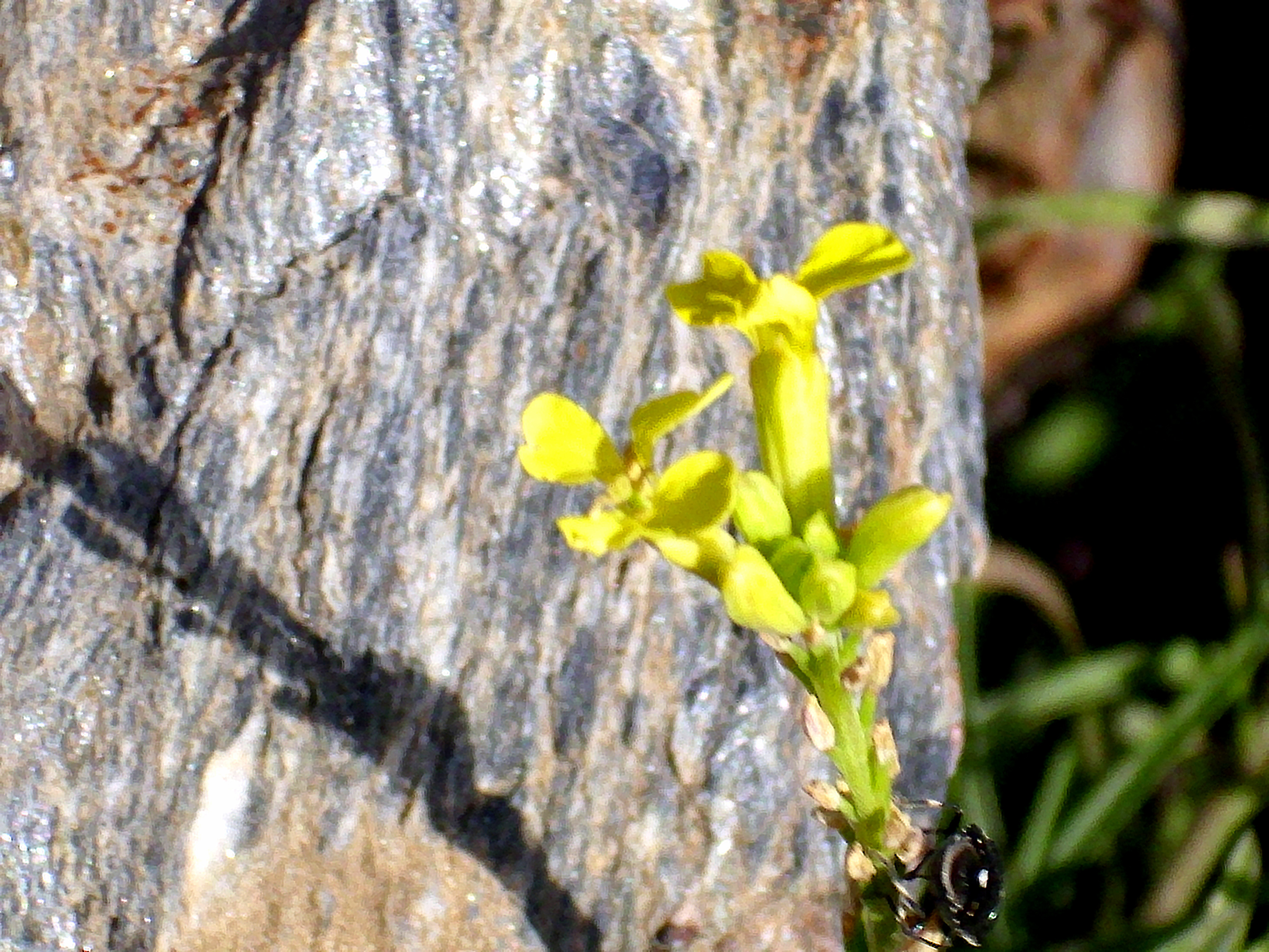 Erysimum nevadense flowers close up, Sierra Nevada, Spain